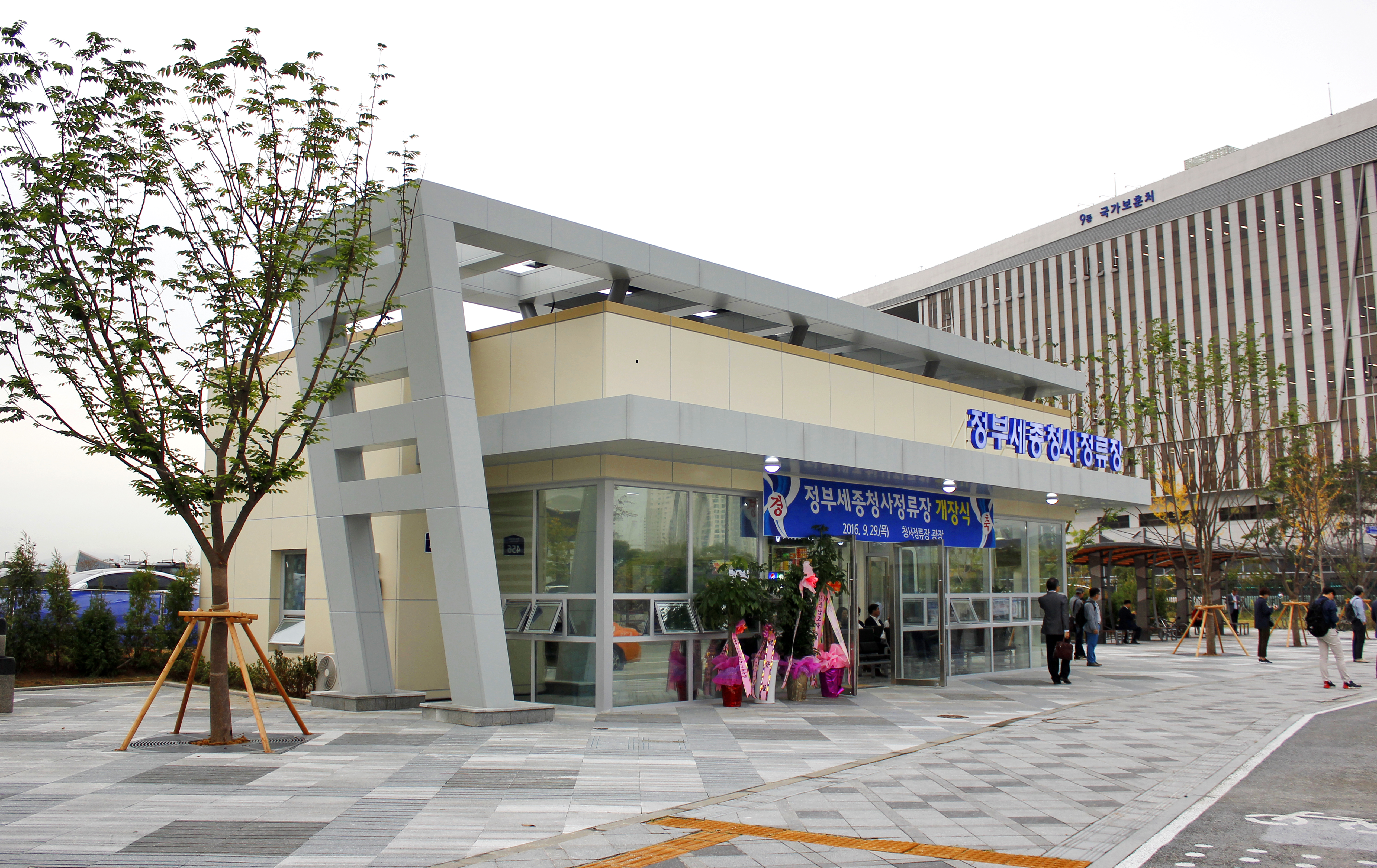 Sejongcheongsa Intercity Bus Station